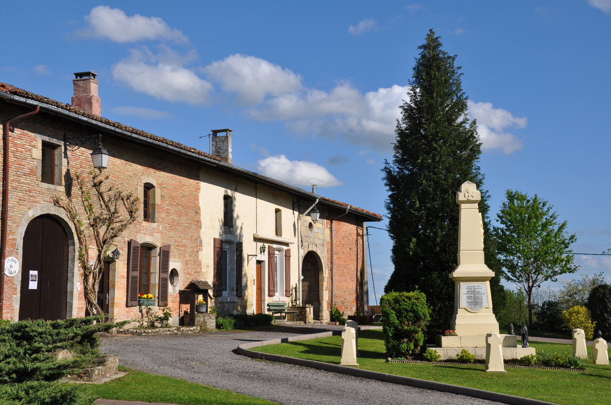 Village centre of Beaulieu-en-Argonne (canton Seuil-d'Argonne, Meuse department, Lorraine region, France).